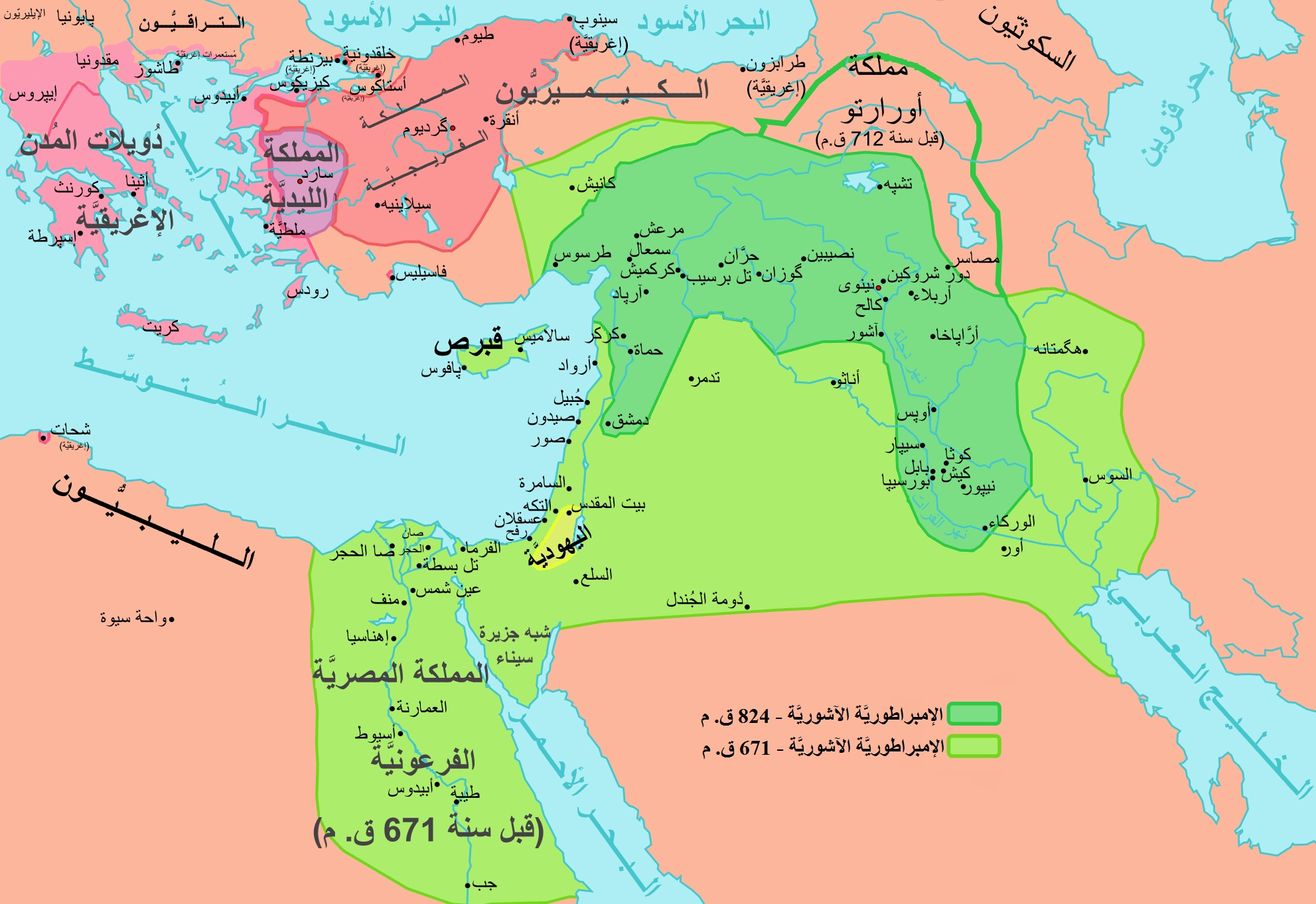 Map of the Assyrian Empire